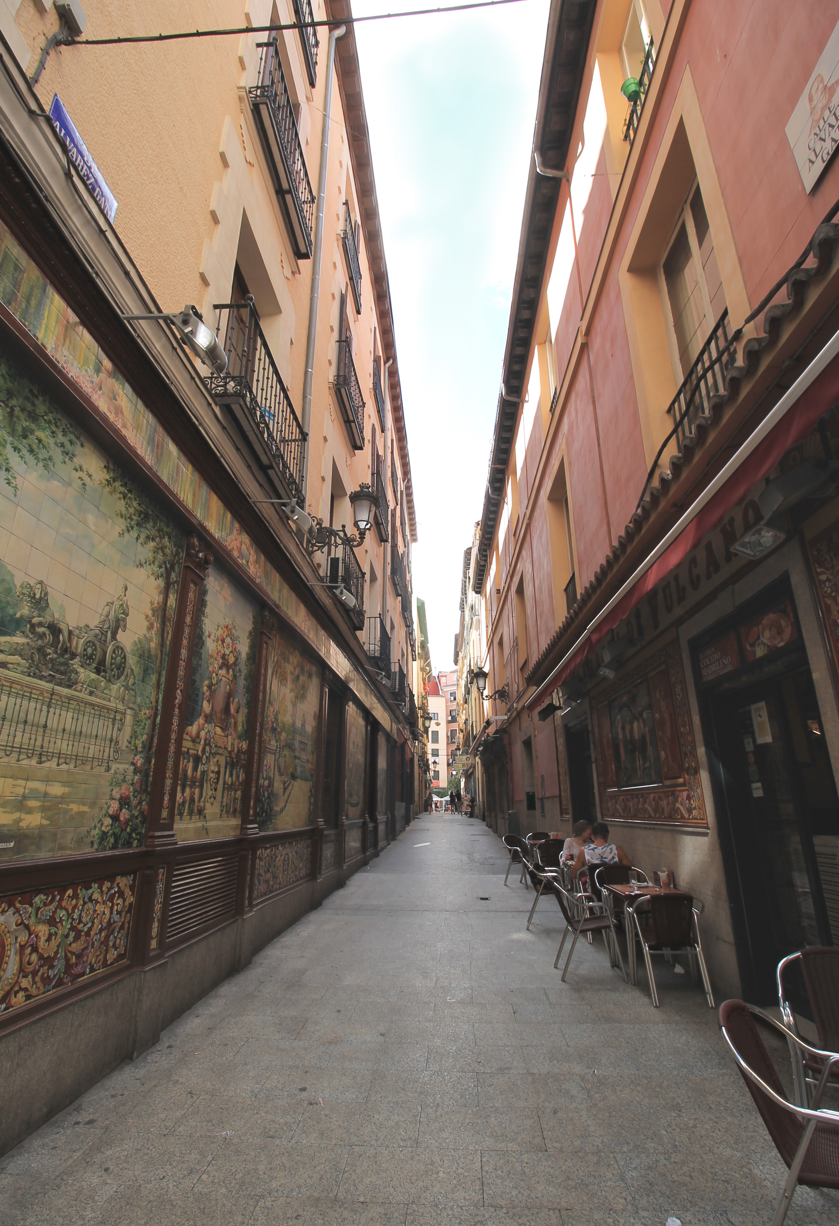 View from Calle de Álvarez Gato (street) in Madrid (Spain).